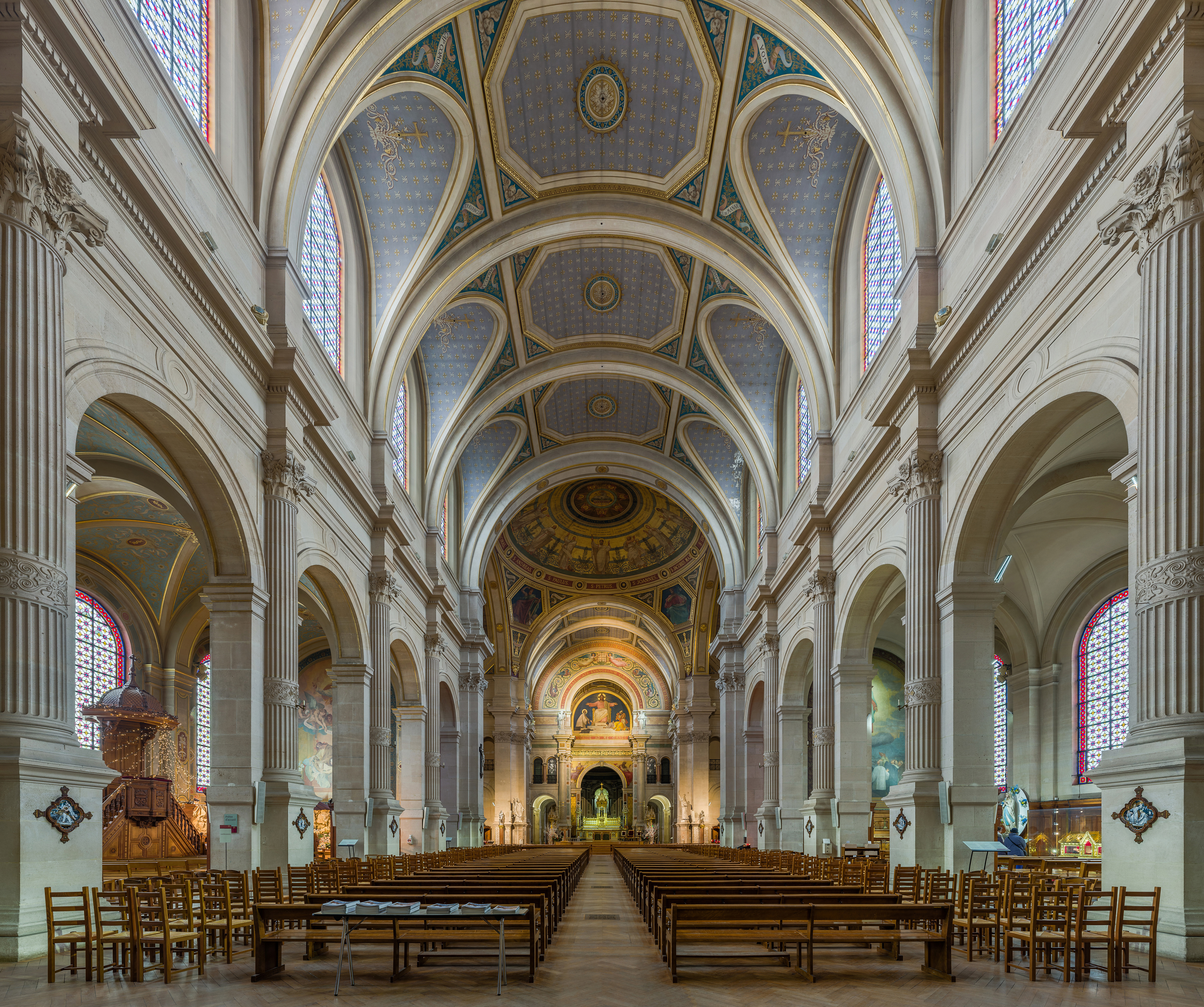 The interior of the Church of Saint-François-Xavier Interior, Paris, France